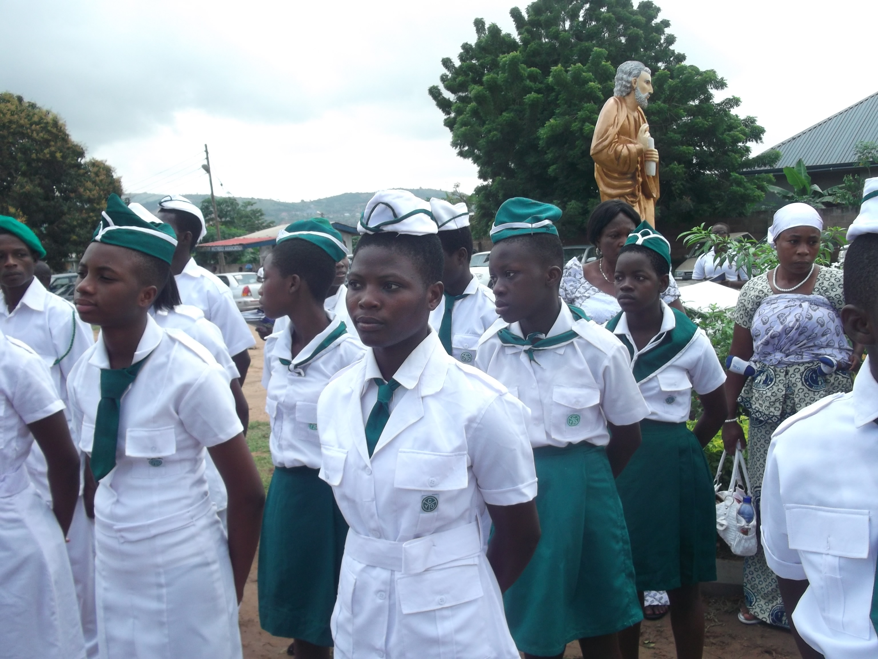 The CYO at the dedication ceremony